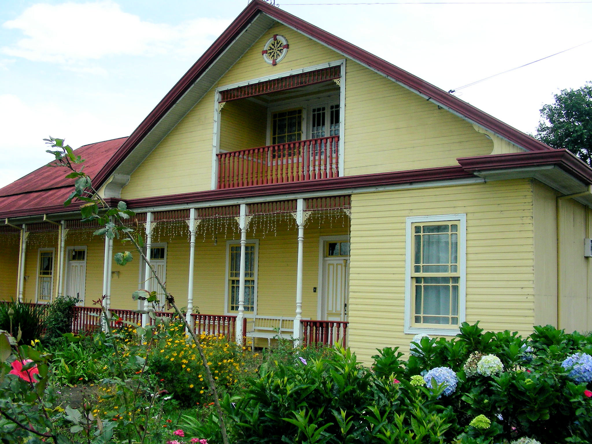 Wooden house across the Sabanilla's Park, Montes de Oca, San José, Costa Rica